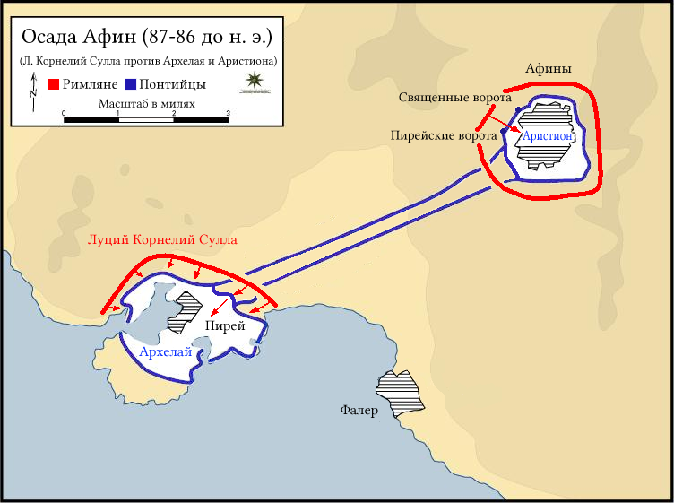 Russian translation